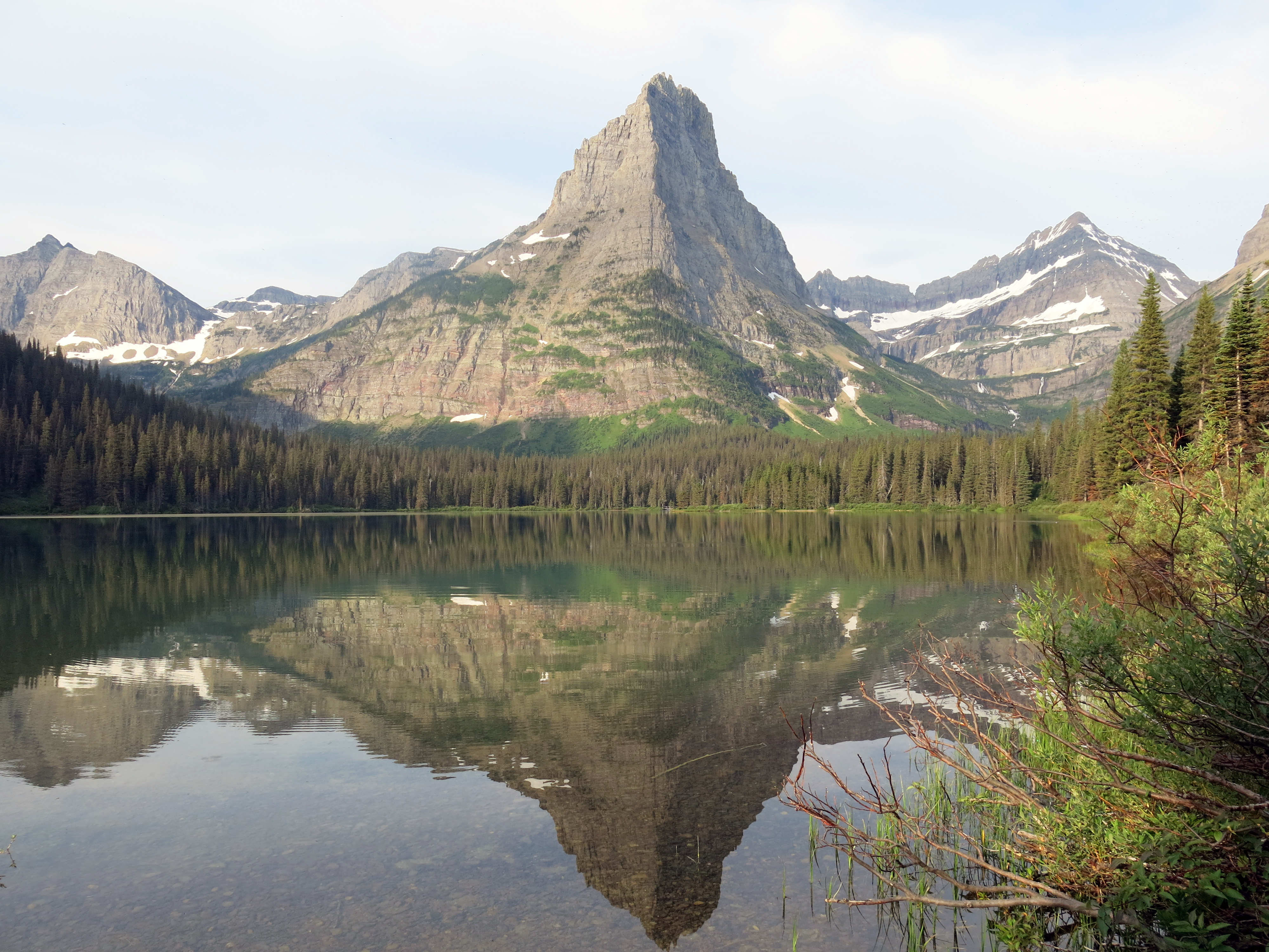 Reflection of Pyramid Peak in Glenns Lake early morning.